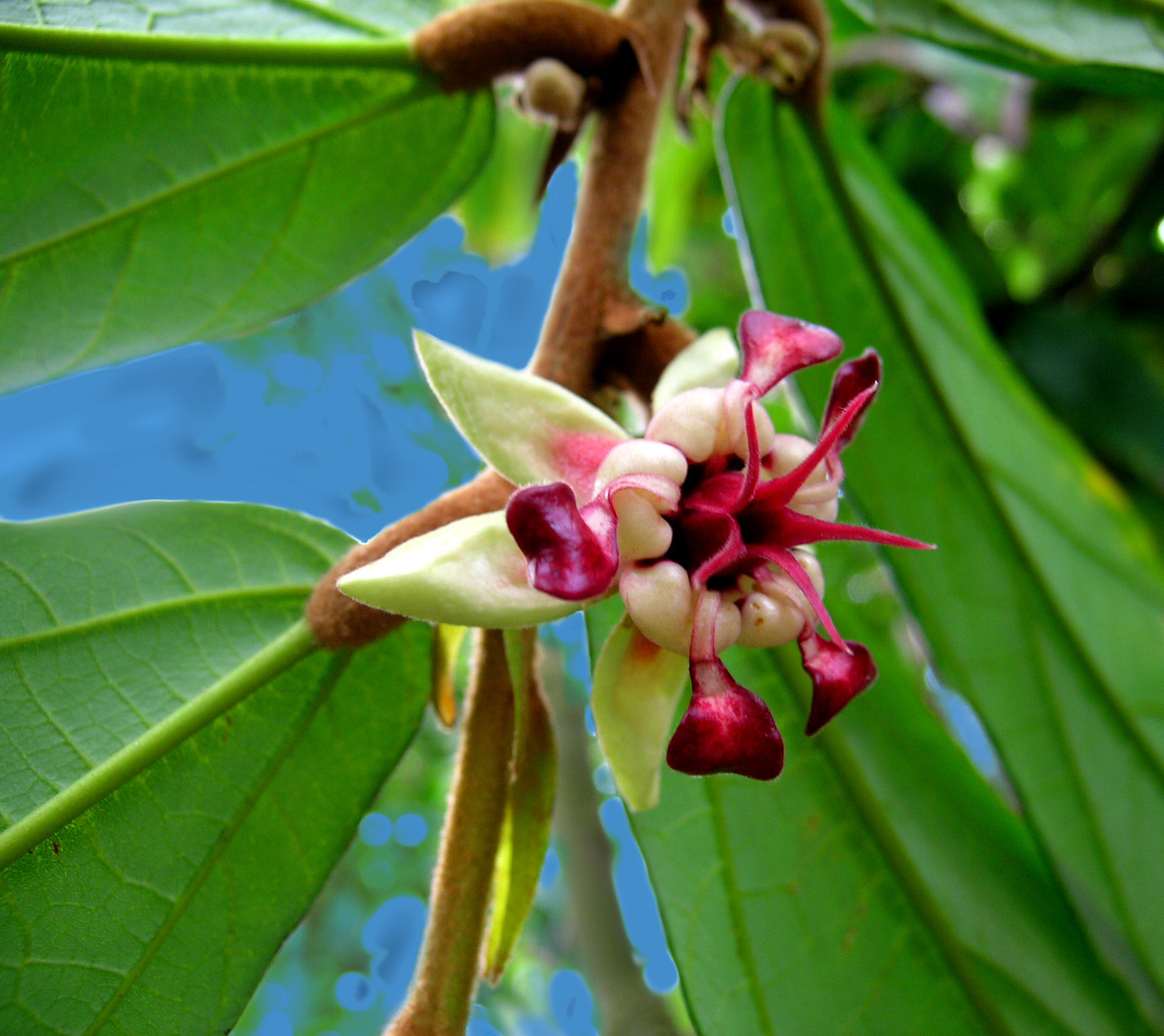 close-up of Theobroma grandiflorum flower, Amazonia cacao-tree